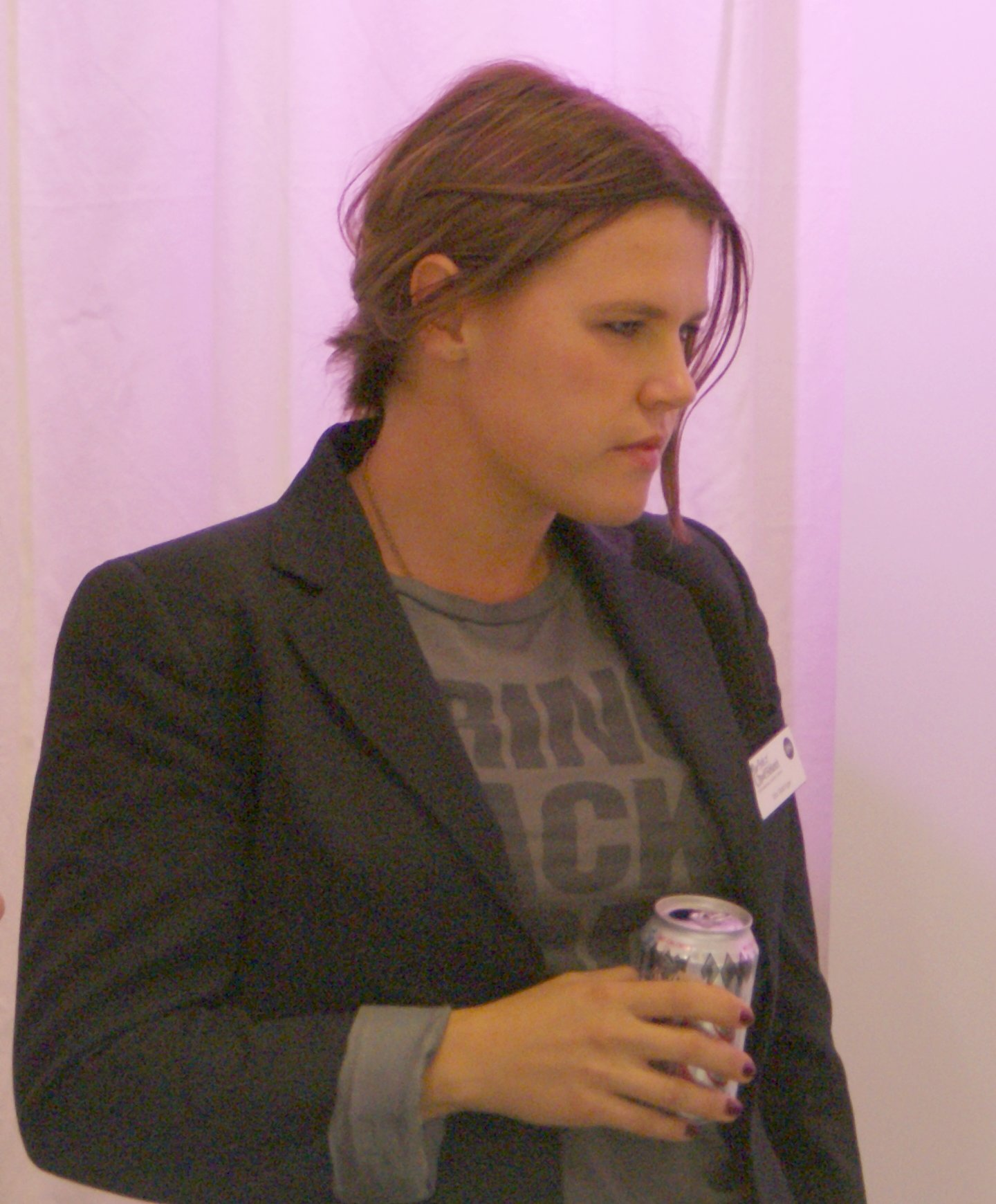 At the bookfair in Gothenburg 2009.